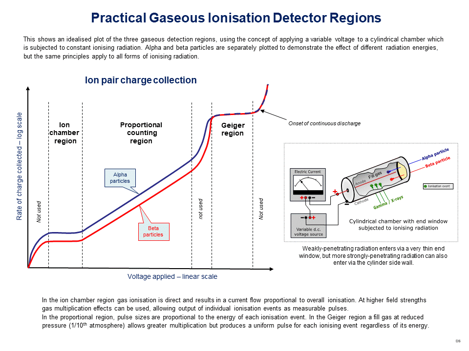 Plot of relative level of ion-pair current with increasing voltage applied between anode and cathode for a wire cylinder ionisation detection system with constant incident ionising radiation. This covers the practical areas of operation of the Geiger-Muller counter, the proportional counter and the ionisation chamber. Alpha particles are more ionising than beta particles, so more current is produced in the ion chamber region by alpha than beta, but the particles cannot be differentiated. More current is produced in the proportional counting region by alpha particles than beta, but by the nature of proportional counting it is possible to differentiate alpha and beta pulses. In the Geiger region, there is no differentiation of alpha and beta as any single ionisation event in the gas results in the same current output. Note that gamma and X-ray photons result in the same plot shape; current also being dependent on radiation energy